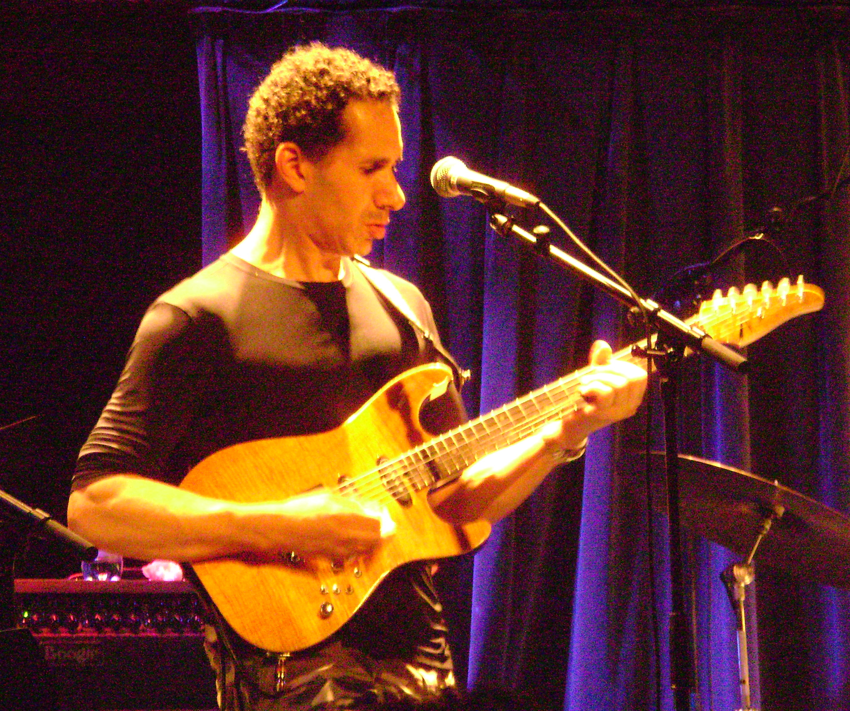 David Gilmore, Concert with Cindy Blackman, Treibhaus Innsbruck 2011